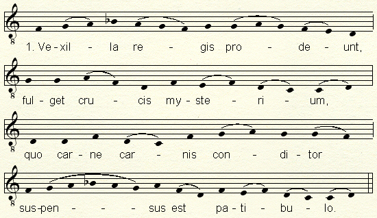 Own engraving from the Solesmes hymnarius